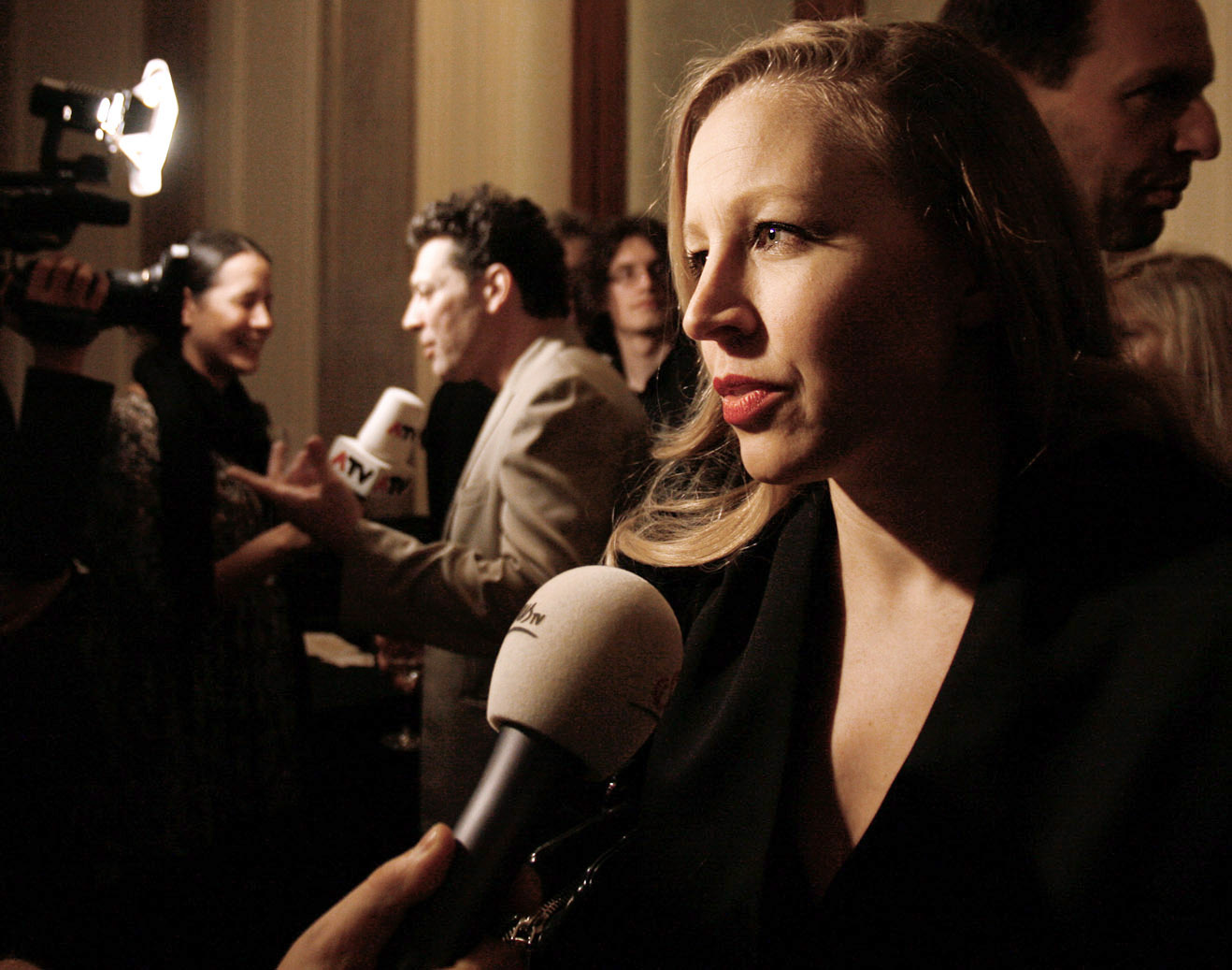 Nina Proll and Gregor Bloéb at the Austrian Film Awards 2011 at the Odeon theater in Vienna.